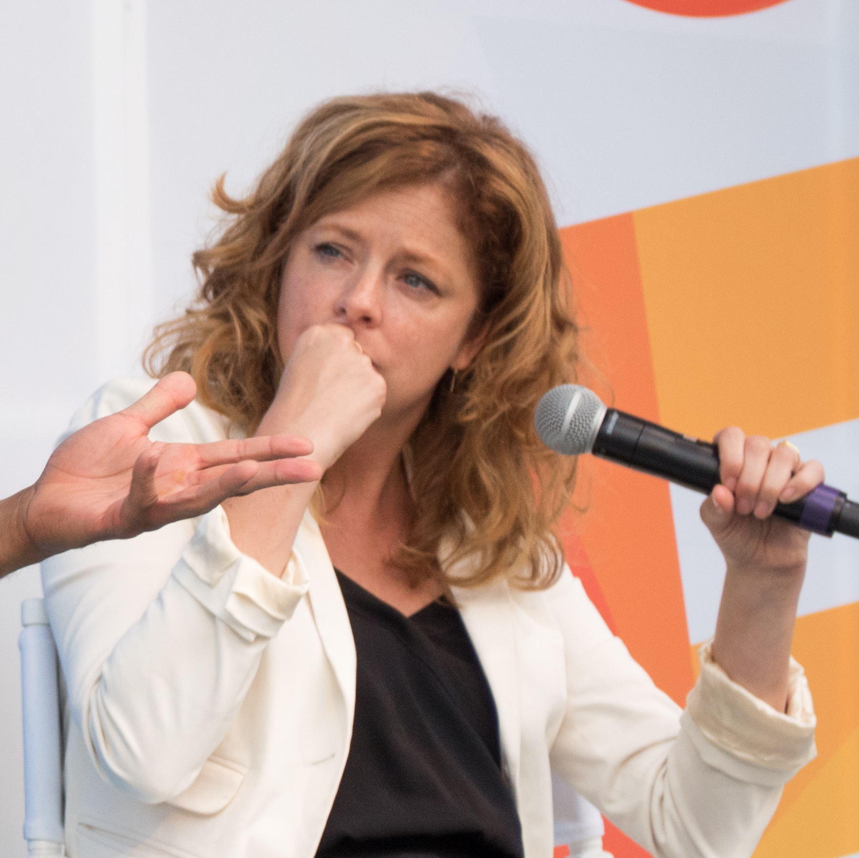 Common interviewed by Lizzie O'Leary